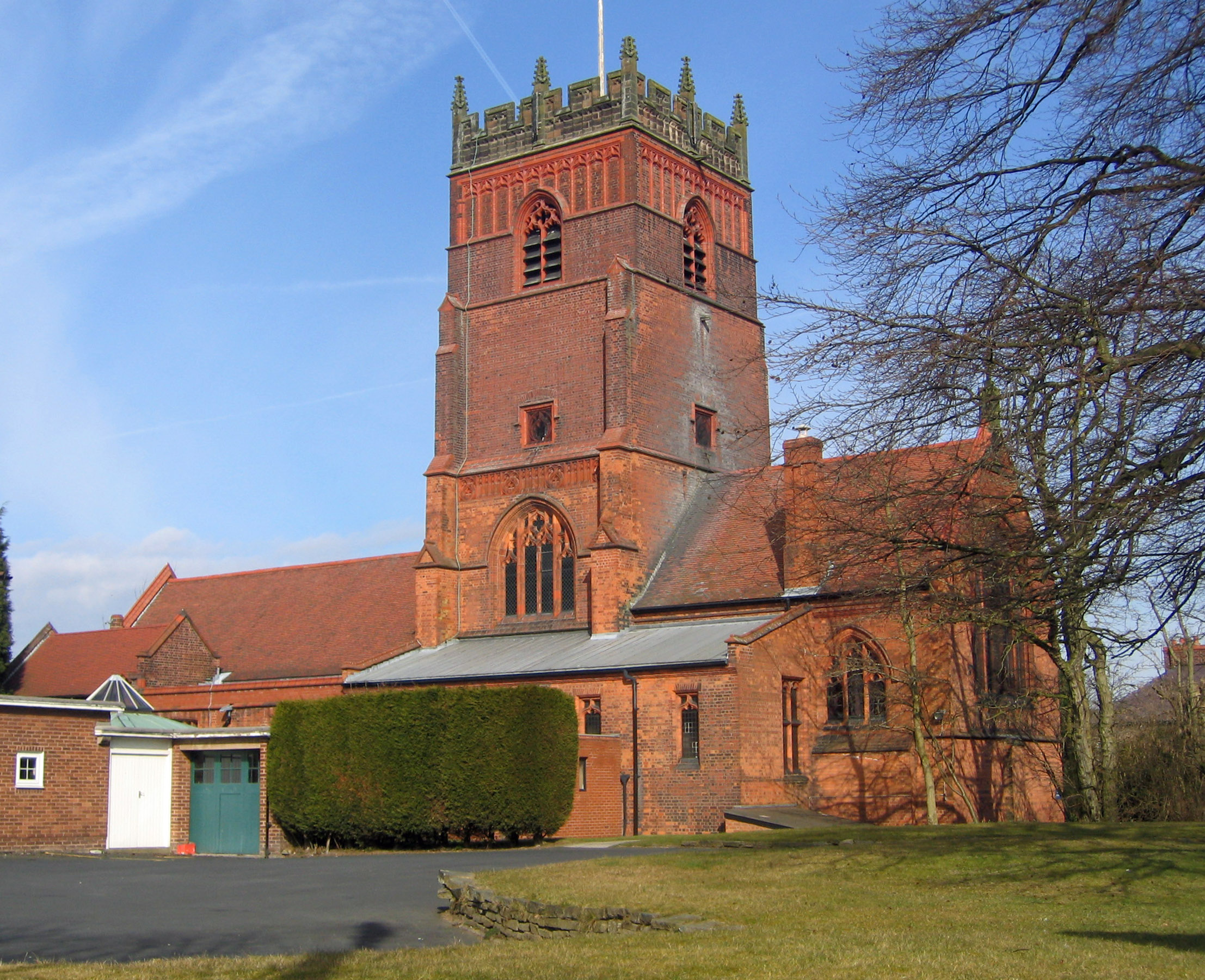 Photograph of St Cross Church, Knutsford, Cheshire, England, from the southeast